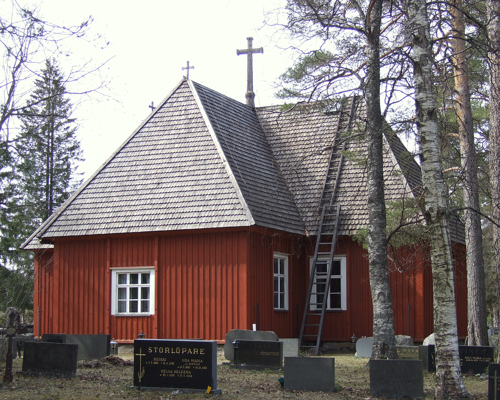 Revonlahti church in the municipality of Siikajoki(Finland). The church was built 1775.